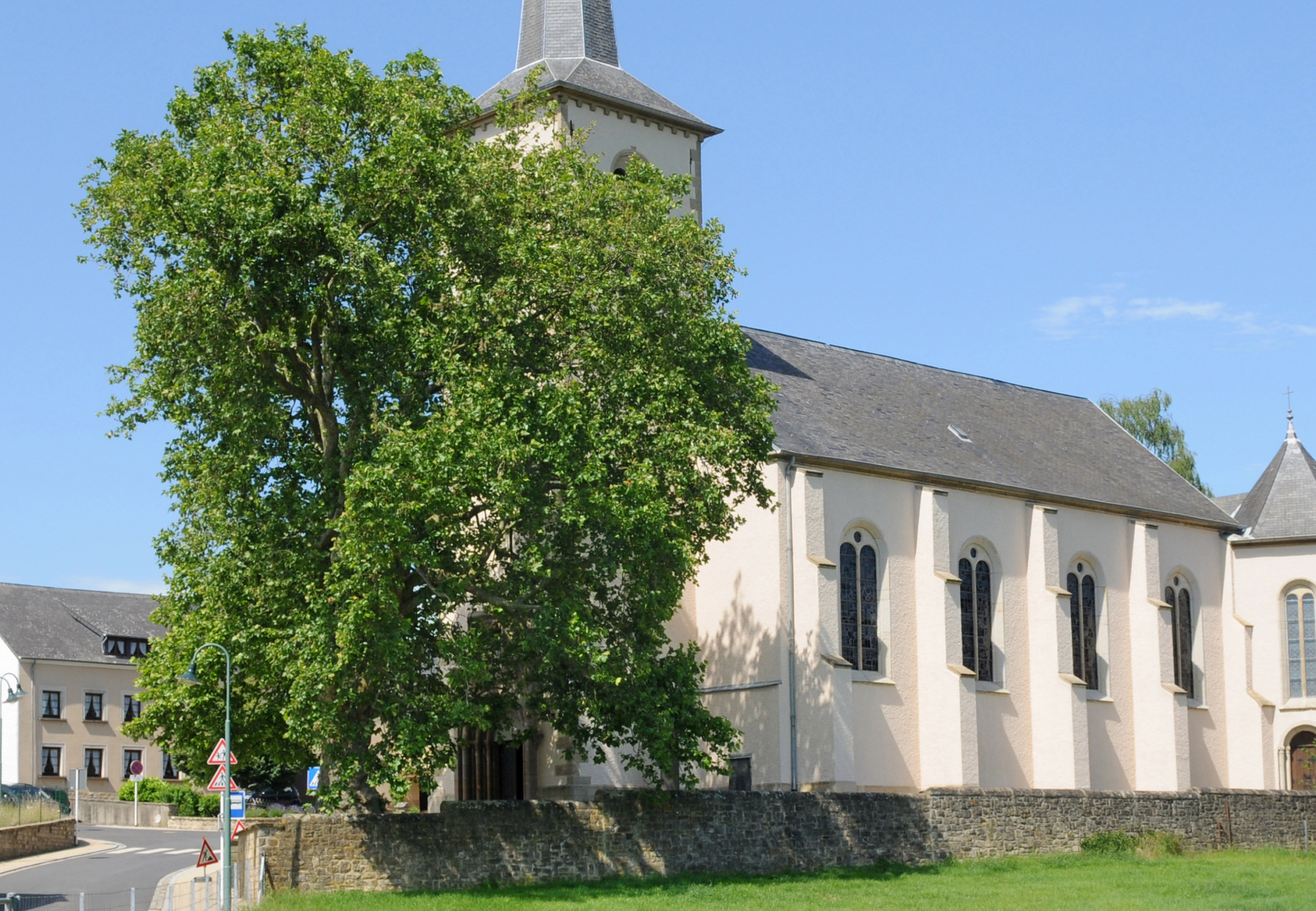 Platanus sp., Plane tree, close to the entry of the church in Tuntange, Luxembourg (country). This tree is ranked with the "Remarkable trees in Luxembourg".